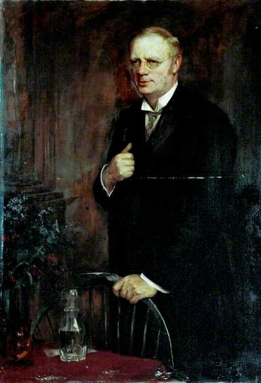 Alfred Bigland (1855-1936) MP Supplied by The Public Catalogue Foundation - artist and sitter dead by 1936